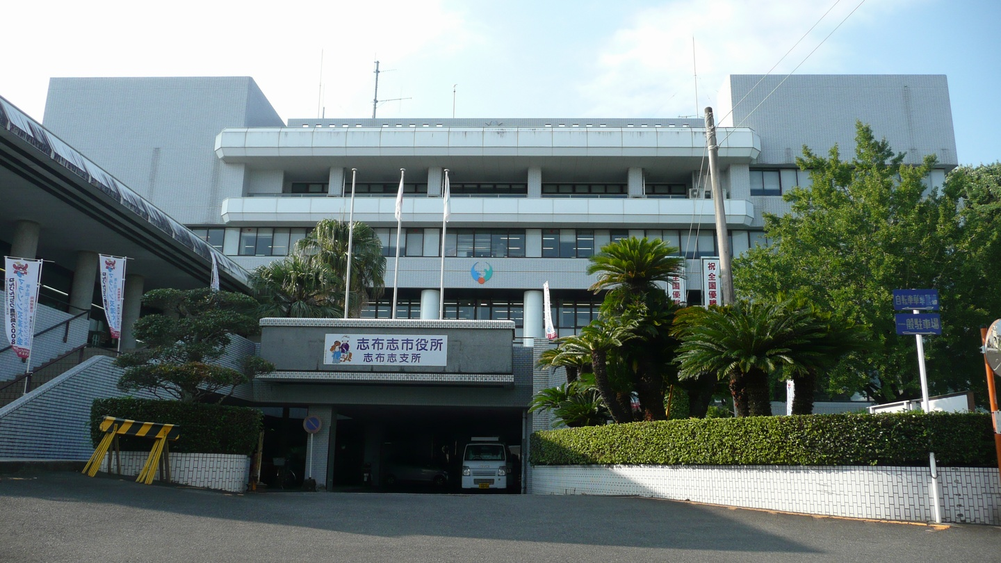 Shibushi City Office Shibushi Branch (Former Shibushi Town Office - Shibushi, Shibushichō, Shibushi City, Kagoshima, Japan)